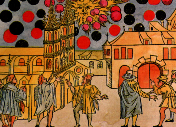 Colored woodprint by Samuel Coccius, Basel, Switzerland, (1566) on the celestial phenomenon over Basel 1566; colored fragment.